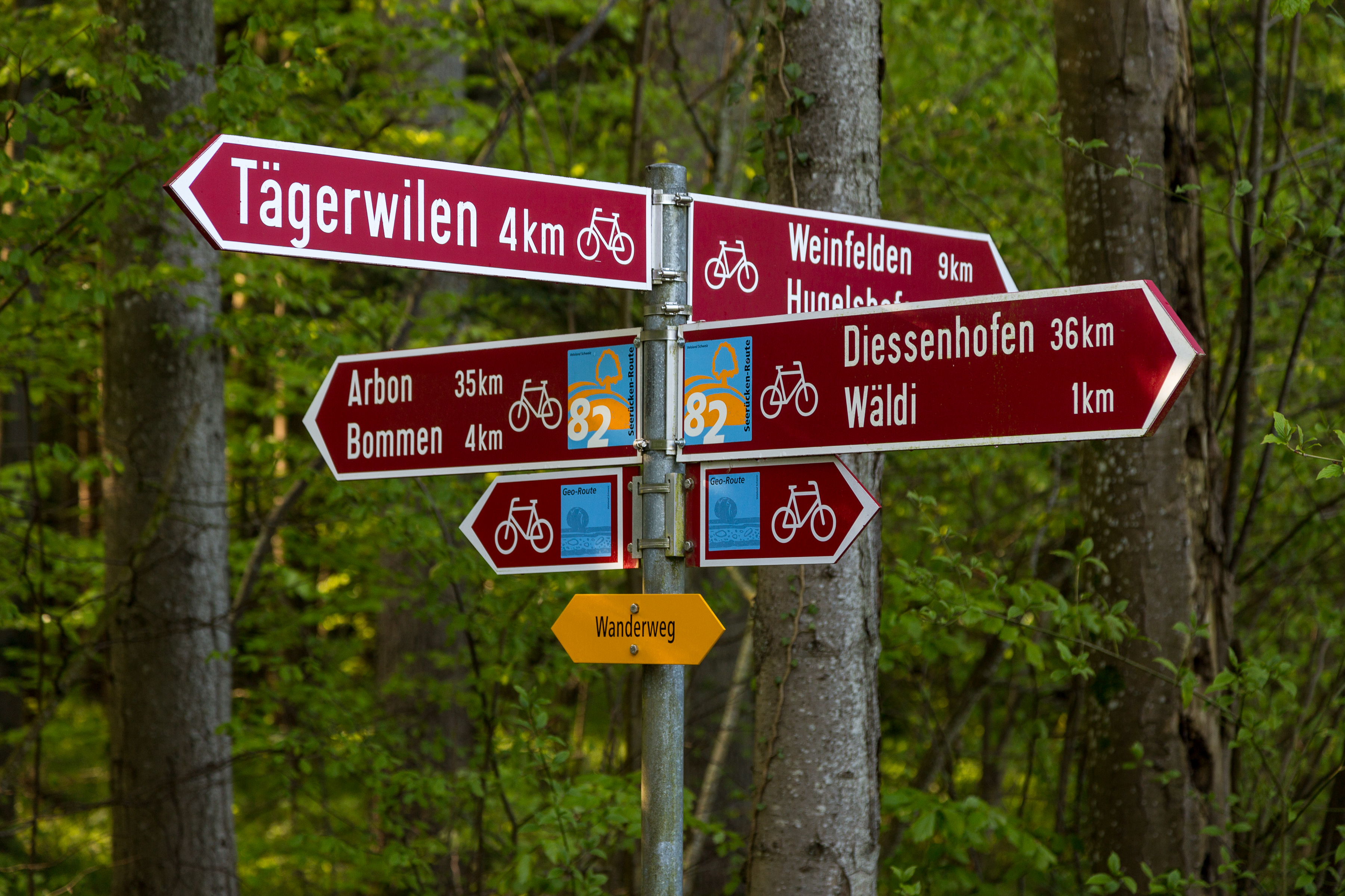 Cycling route signs in the woods. Canton of Thurgau, Switzerland.